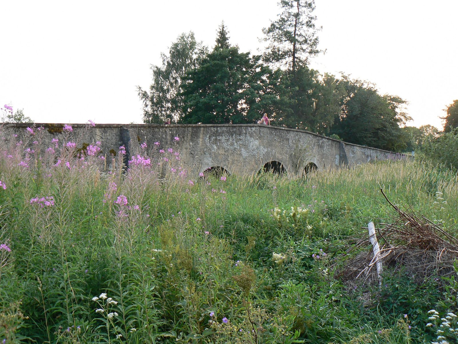 Jõelähtme stone bridge in Estonia. Built around 1820-1830